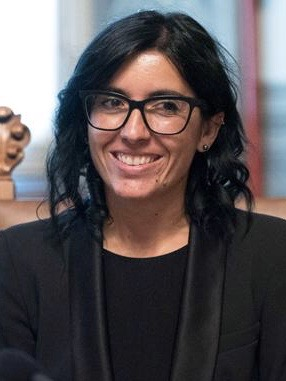 Fabiana Dadone